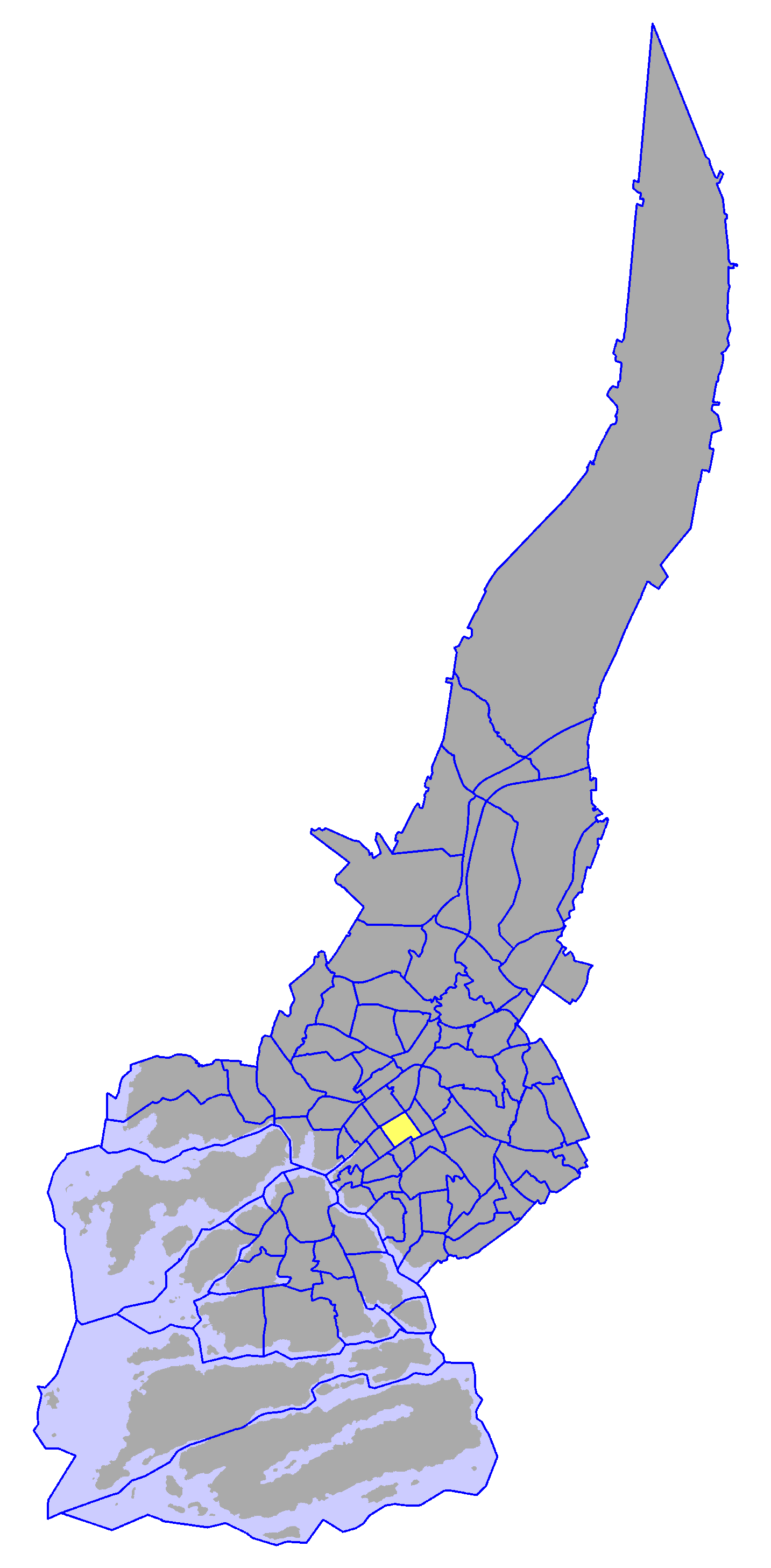 District number III, in Turku